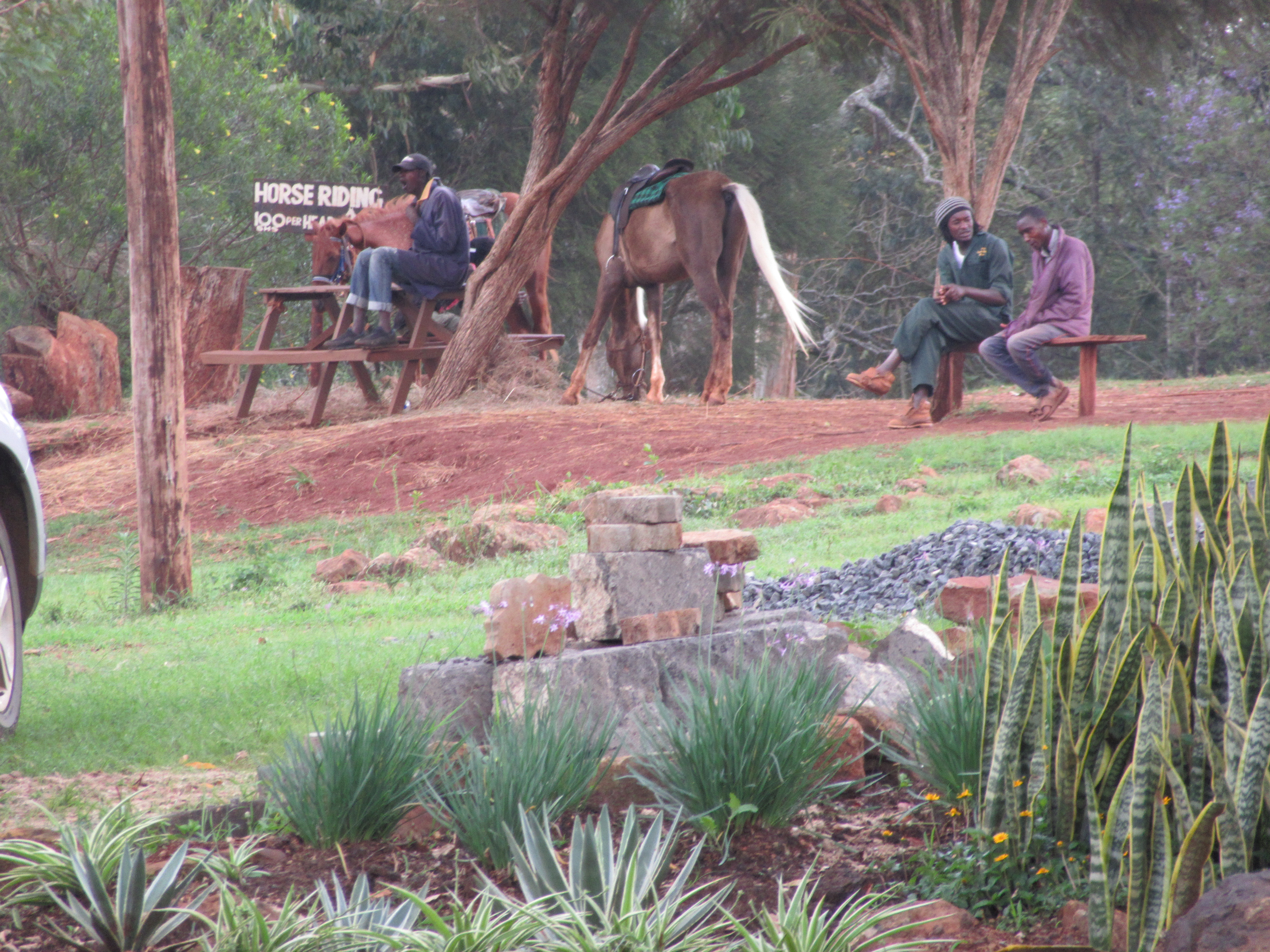 Horse riding is a popular pastime event during the weekends This is an image of music and dance from Kenya